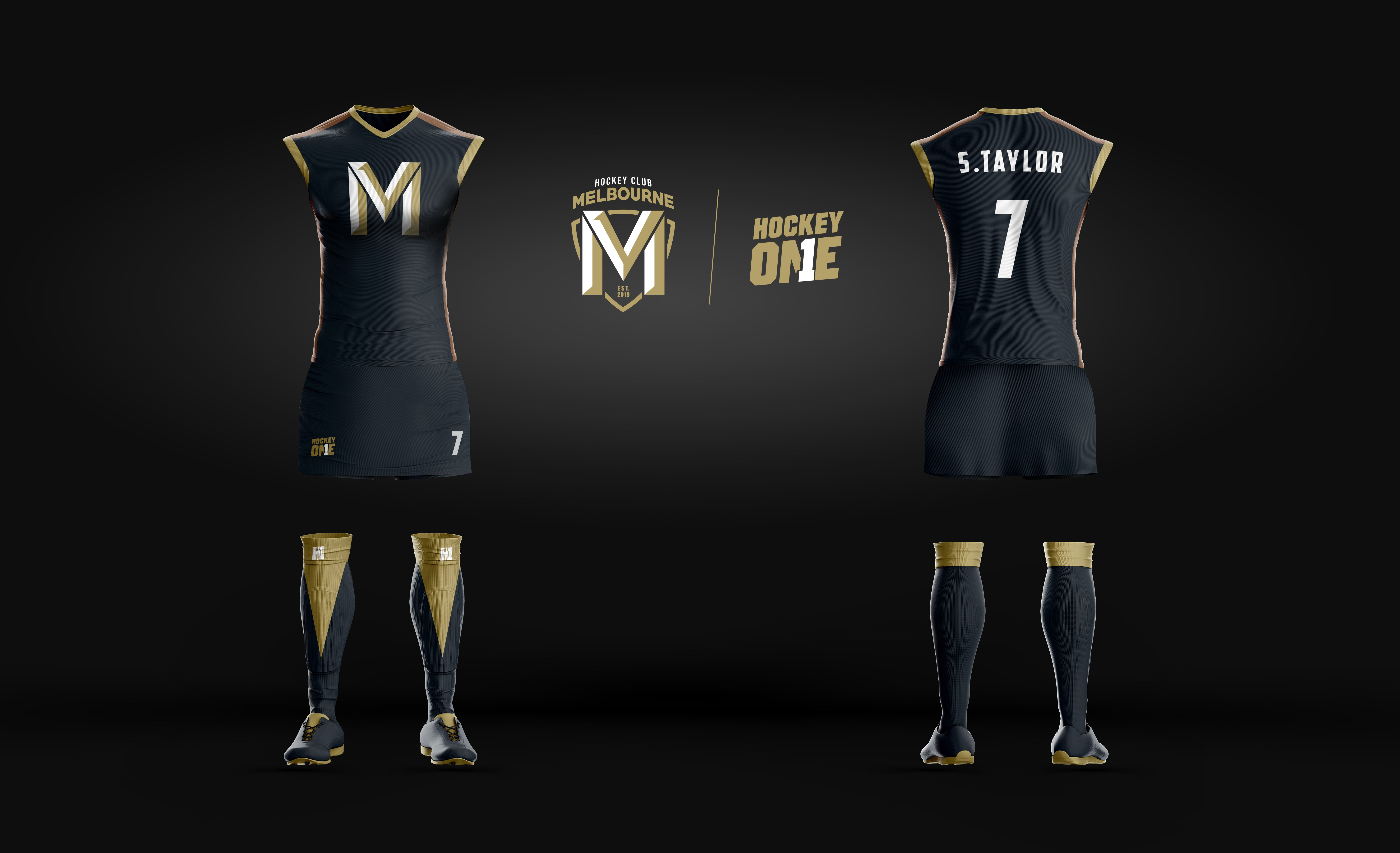 HC Melbourne Women's Uniform